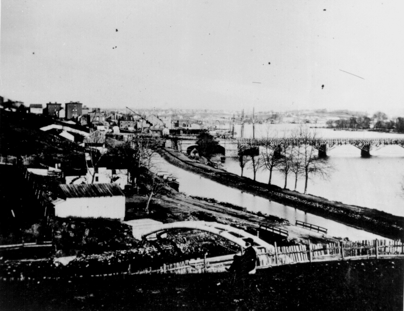 Georgetown. Washington, DC, ca. 1862. Mathew Brady collection. Overview of the C & 0 Canal. Aqueduct Bridge at right, and unfinished Capitol dome in the distant background. Source: U.S. National Archives, Pictures of the American City #25